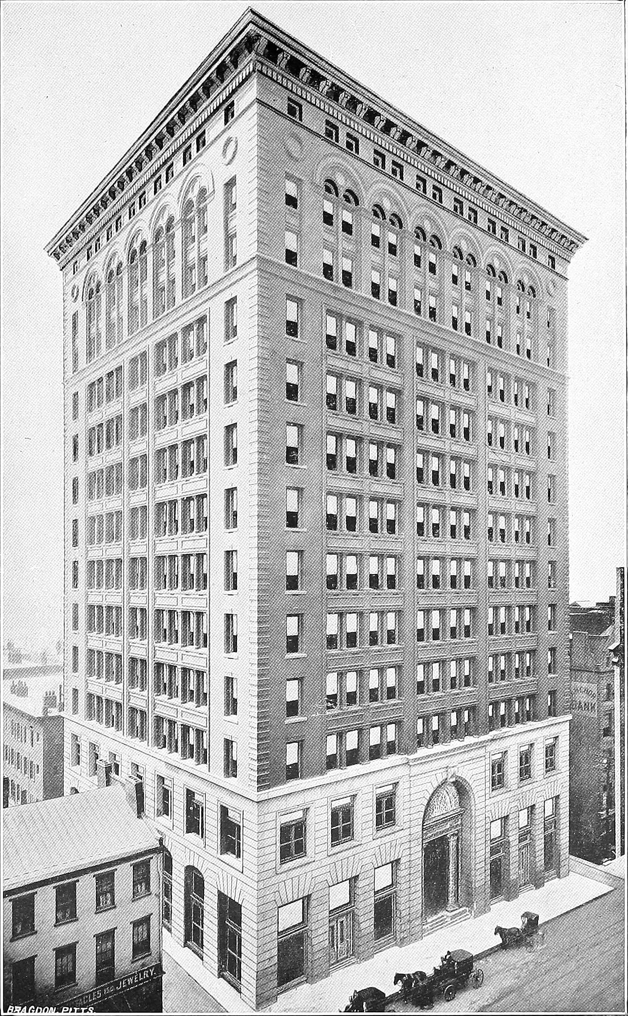 View of the Carnegie Building (opened 1895, architects Longfellow, Alden & Harlow) in 1905, by photographer John C. Bragdon